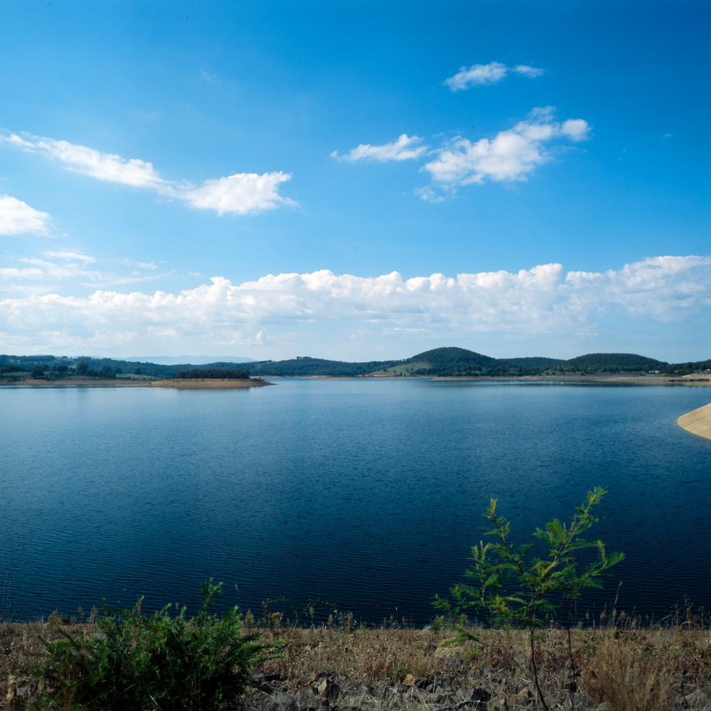 Sugarloaf Reservoir, Christmas Hills, Melbourne